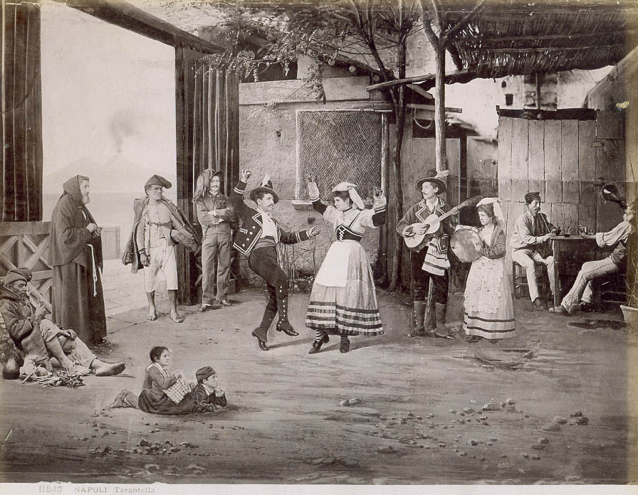 Giorgio Sommer (1834-1914), "Naples - Tarantella". This is a (rather kitsch) collage of images of individuals shot by Sommer himself. Catalogue #: 11640.